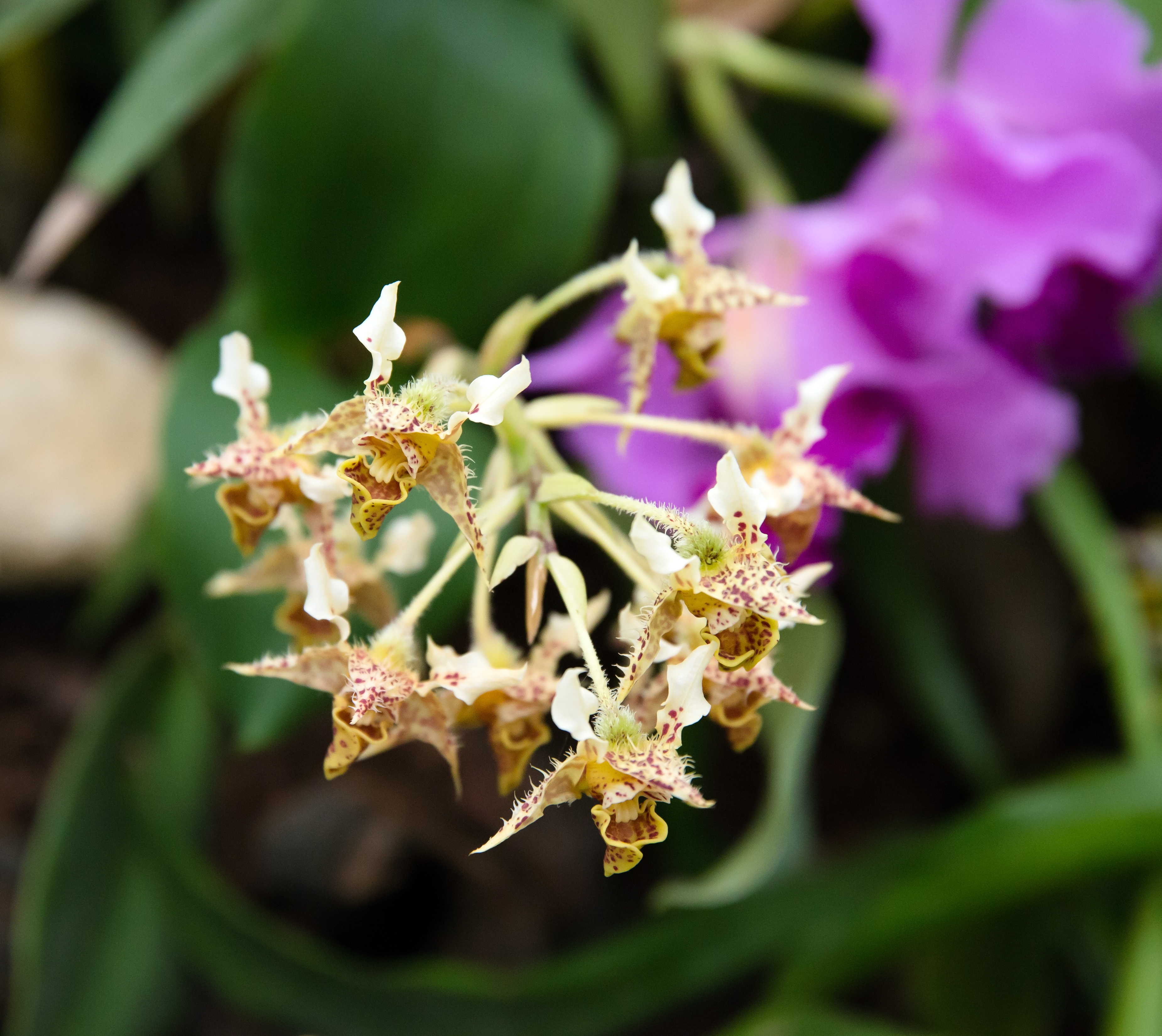 Dendrobium polysema - International Exhibition of Orchids and Tillandsia at Blumengärten Hirschstetten in Vienna, Austria.